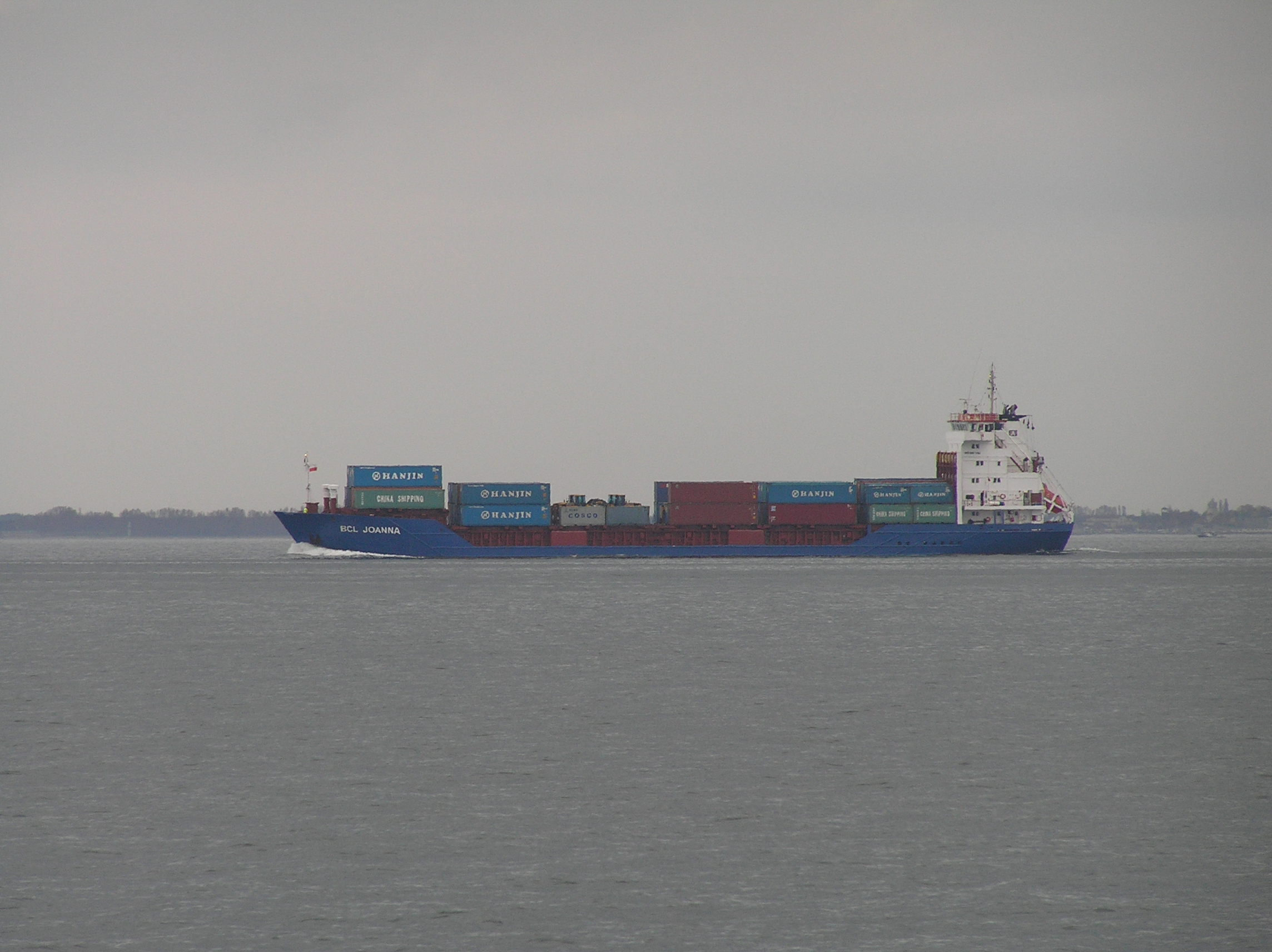 Container ship MS BCL Joanna on the Bay of Gdańsk